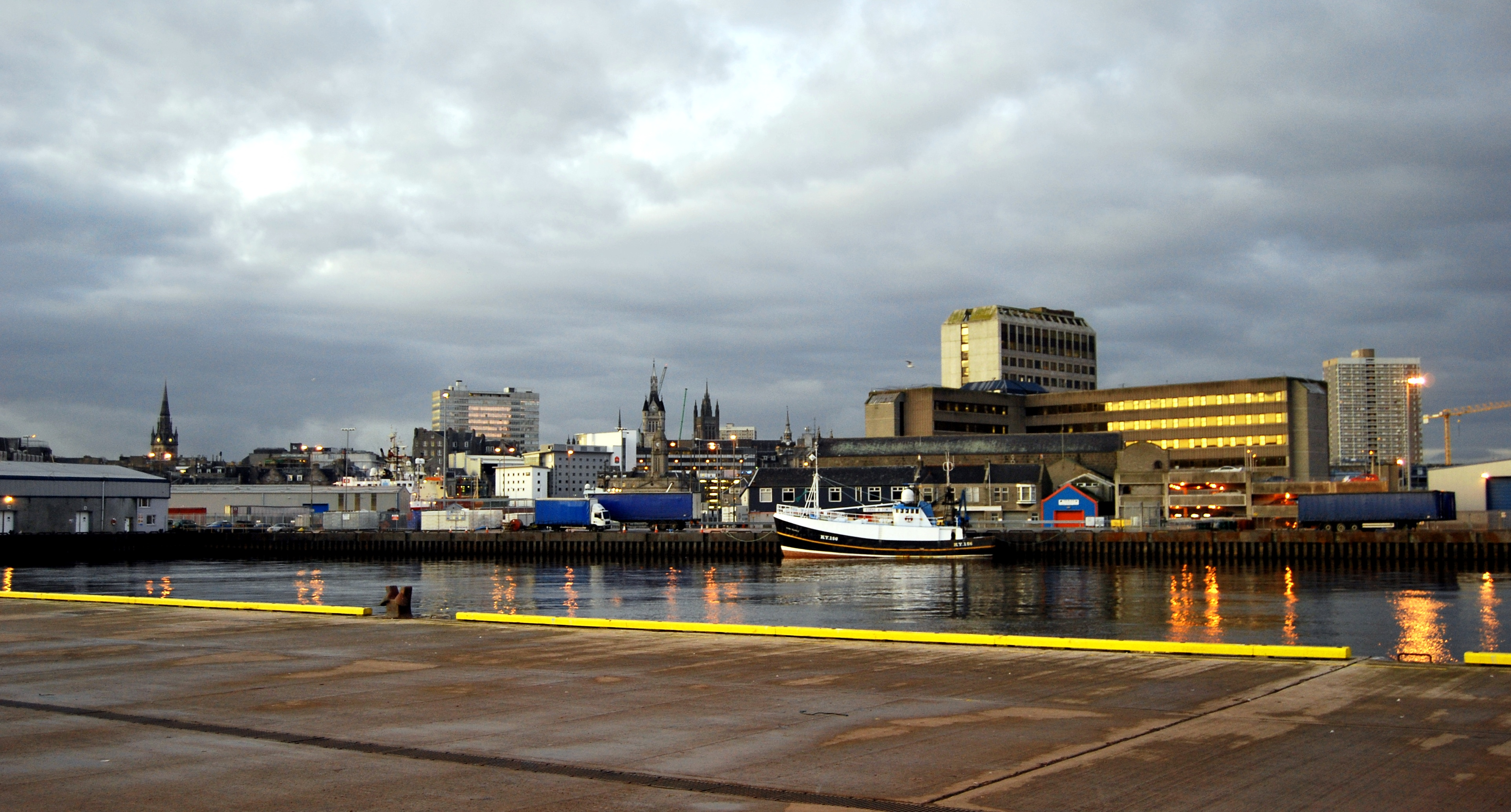 Aberdeen City from docks